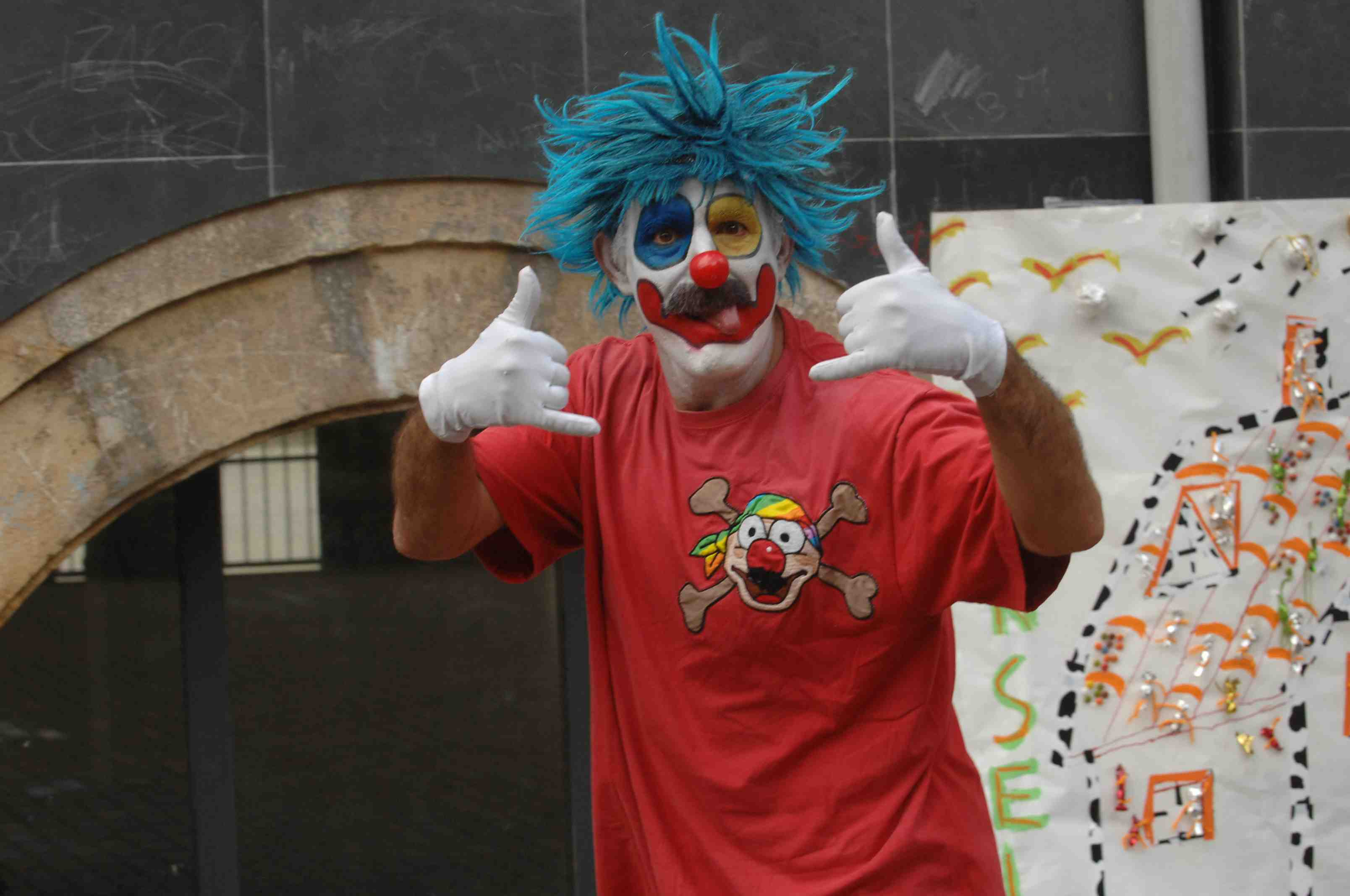 Porrotx clown, Basque Country.